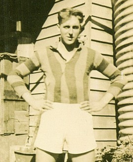 Photograph of Arthur Robbins in 1944